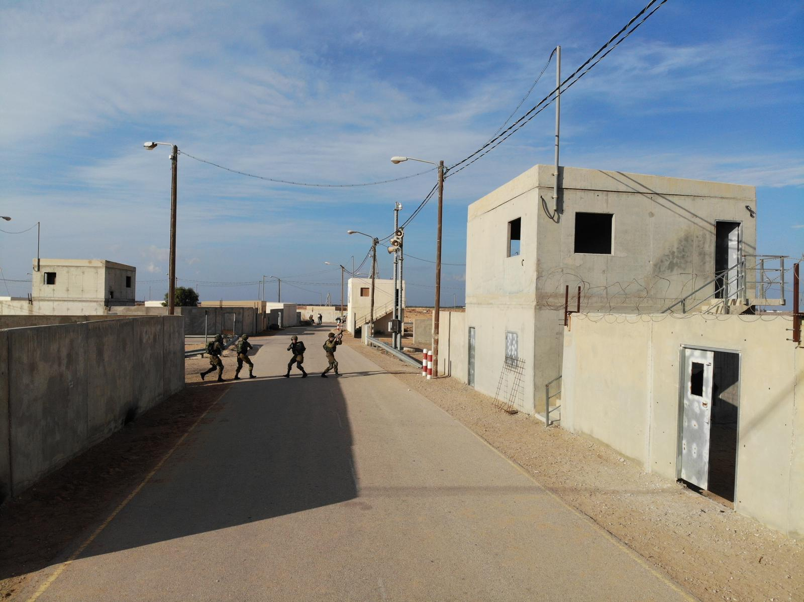 LashabDaya